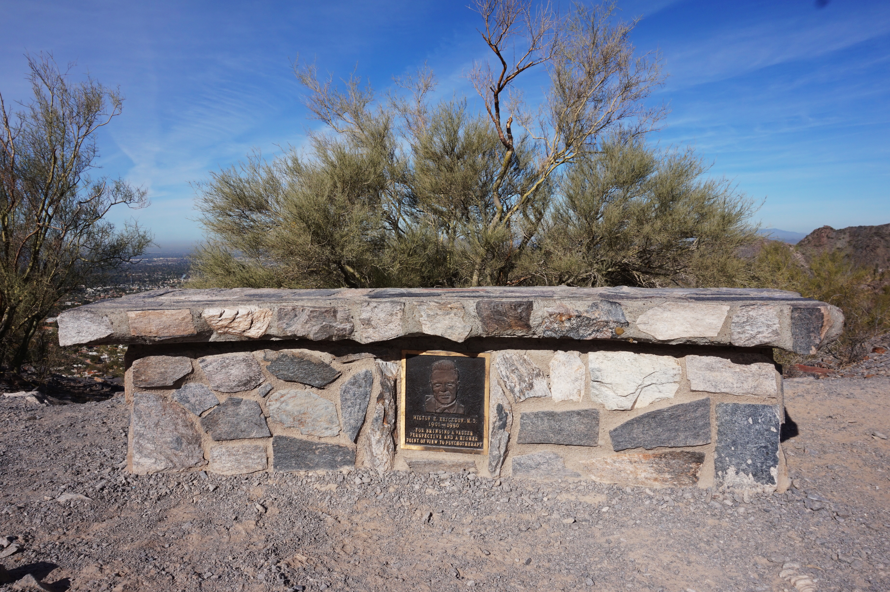 Memorial plate of Milton H. Erickson on squaw peak in Phoenix, Arizona, United States